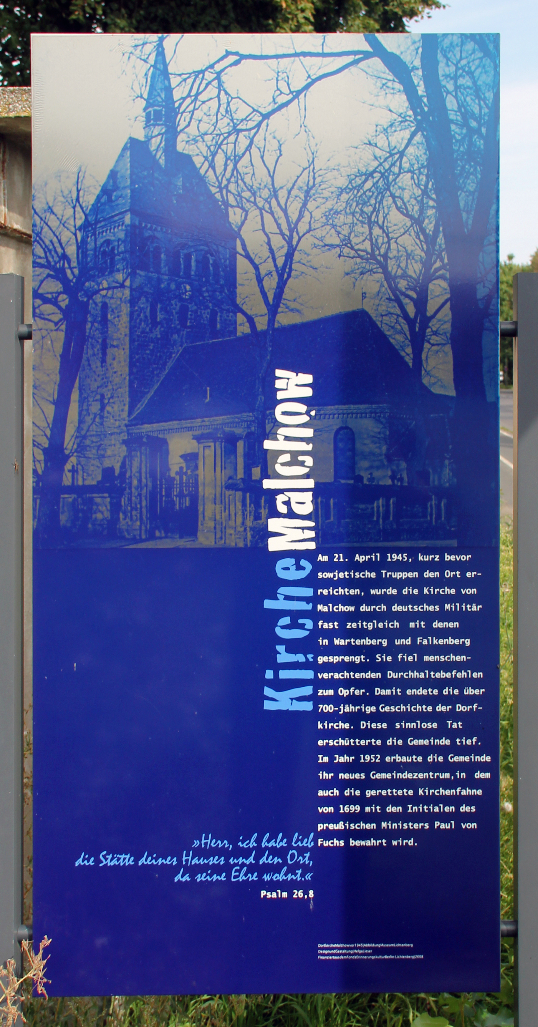 Memorial plaque, Dorfkirche Malchow, Dorfstraße 38, Berlin-Malchow, Deutschland